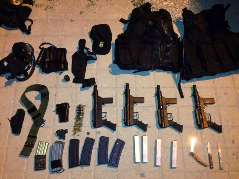 On the night of June 16th, 2014, IDF forces searched the city of Nablus as a part of Operation Brother’s Keeper -- the operation to find the three kidnapped Israeli teens. The forces found hundreds of concealed weapons and detained more than 40 terrorist suspects. These are the weapons they found in the possession of Palestinians. Read more The Israel Defense Forces Facebook The Israel Defense Forces blog Follow us on Twitter